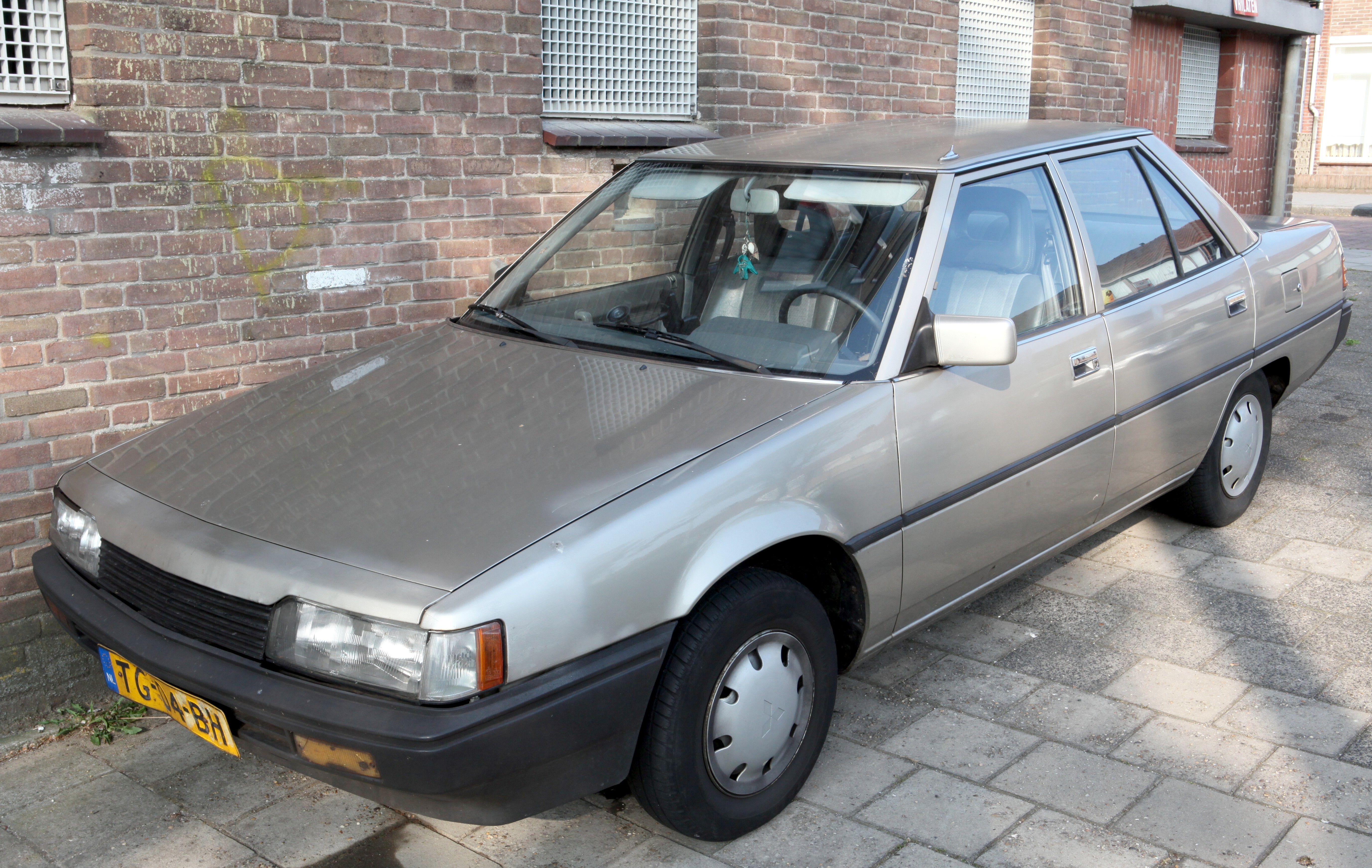 Mitsubishi Galant Fifth generation 1980 - 1987